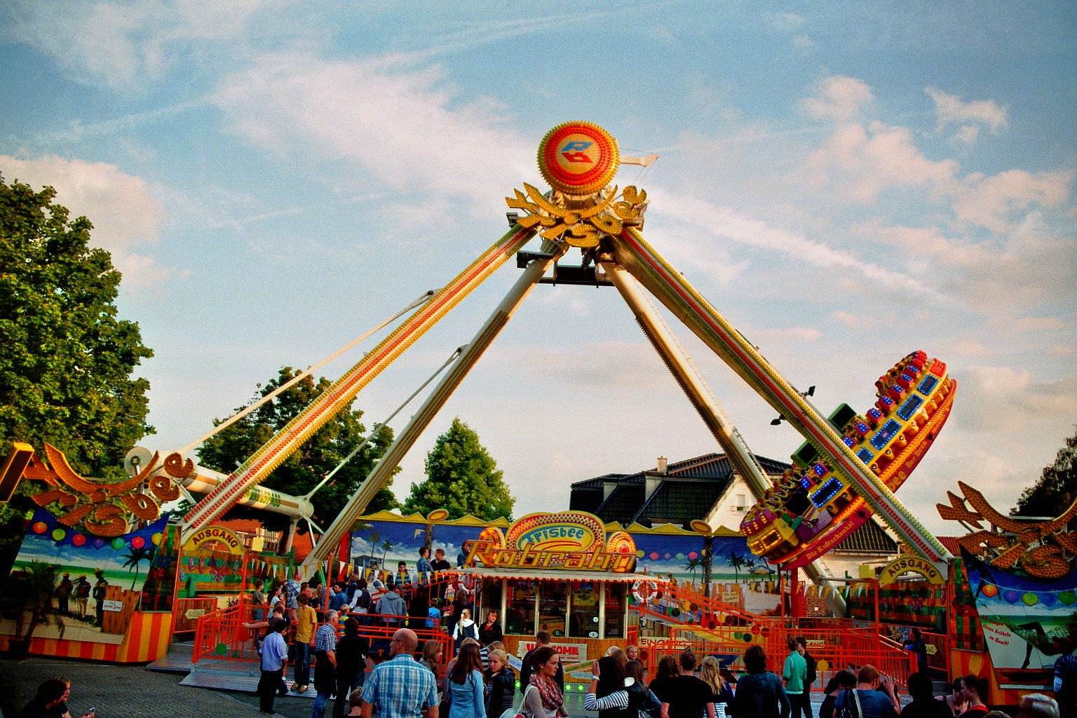 Funfair Großkirmes Ibbenbüren in Ibbenbüren, Kreis Steinfurt, North Rhine-Westphalia, Germany.